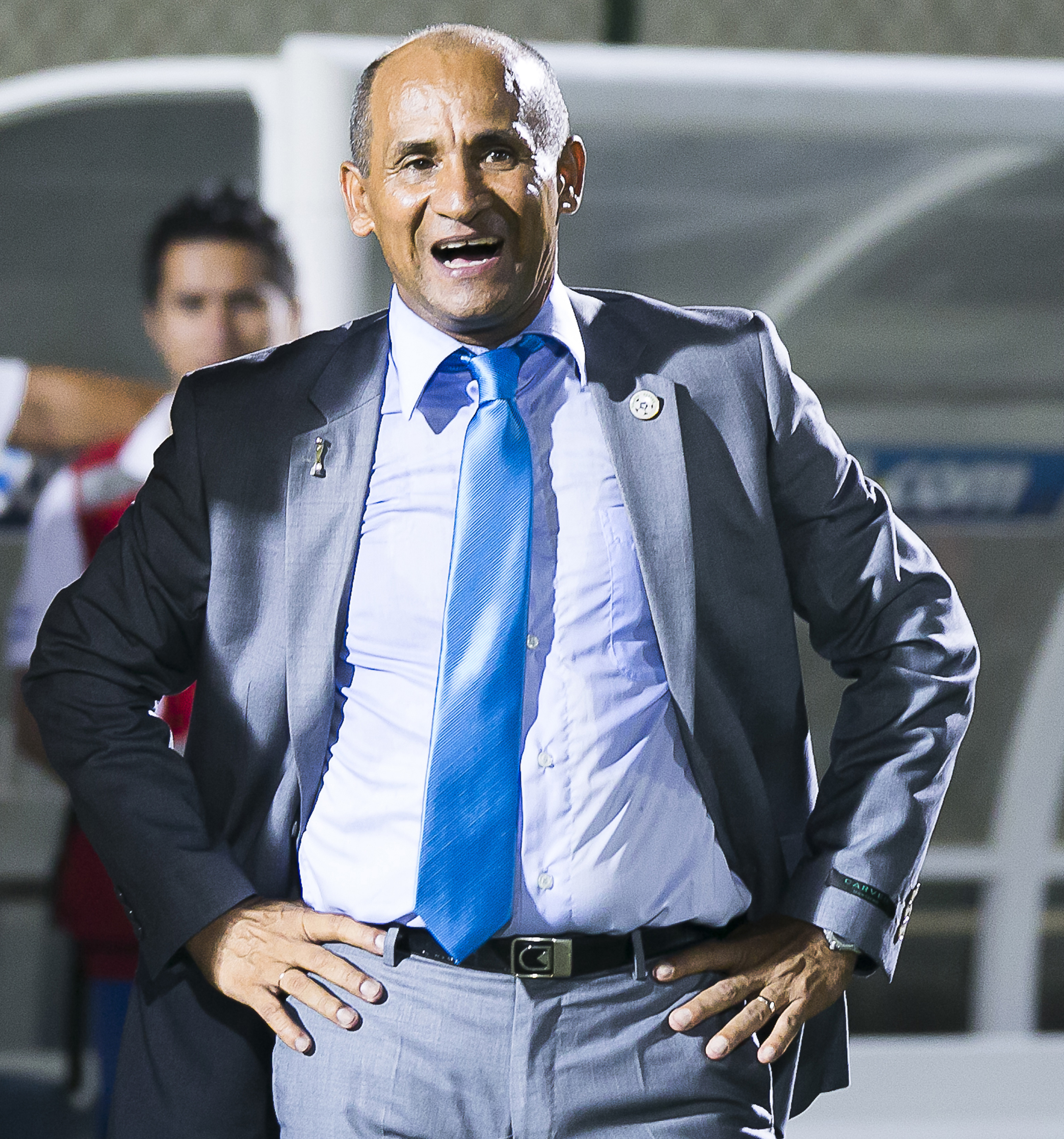 Nicaragua vs Surinam 1-0